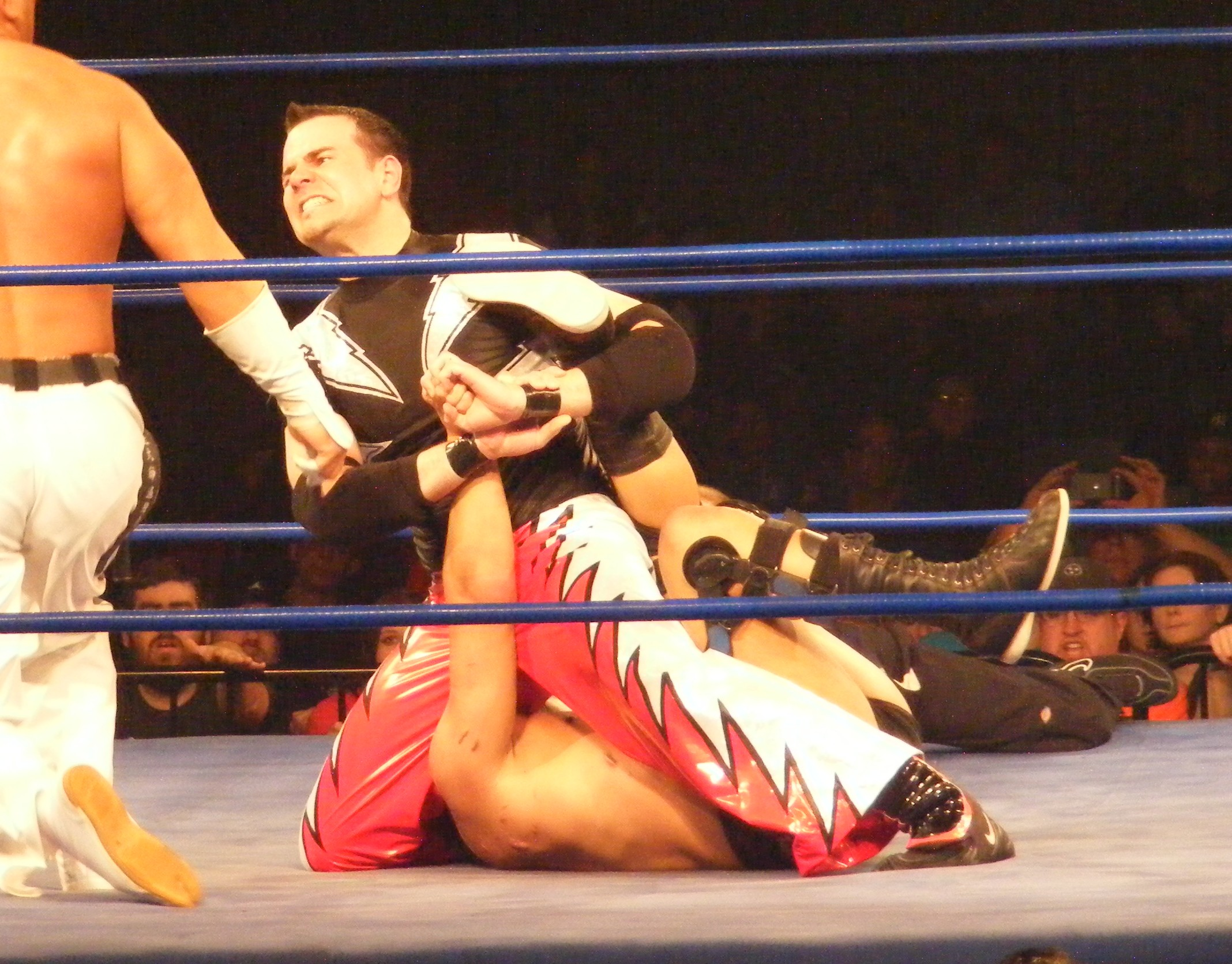 Professional wrestler Mike Quackenbush performing the Chikara Special on the Great Sasuke.